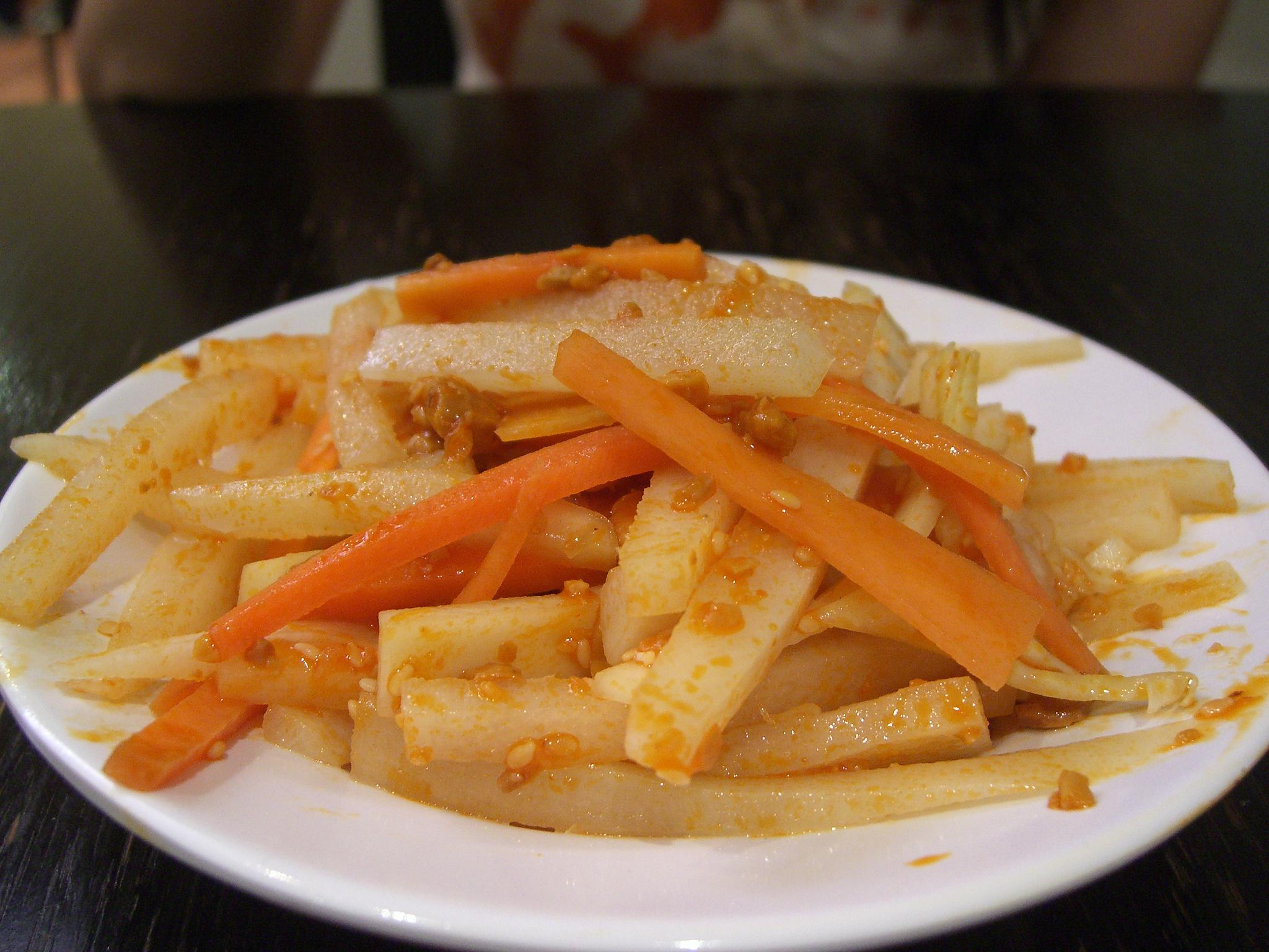 Acar - Singapore Chom Chom AUD4.50 Bad choices all around for dinner tonight. Singapore Chom Chom 188 Bourke St Melbourne 3000 (03) 9663 3778